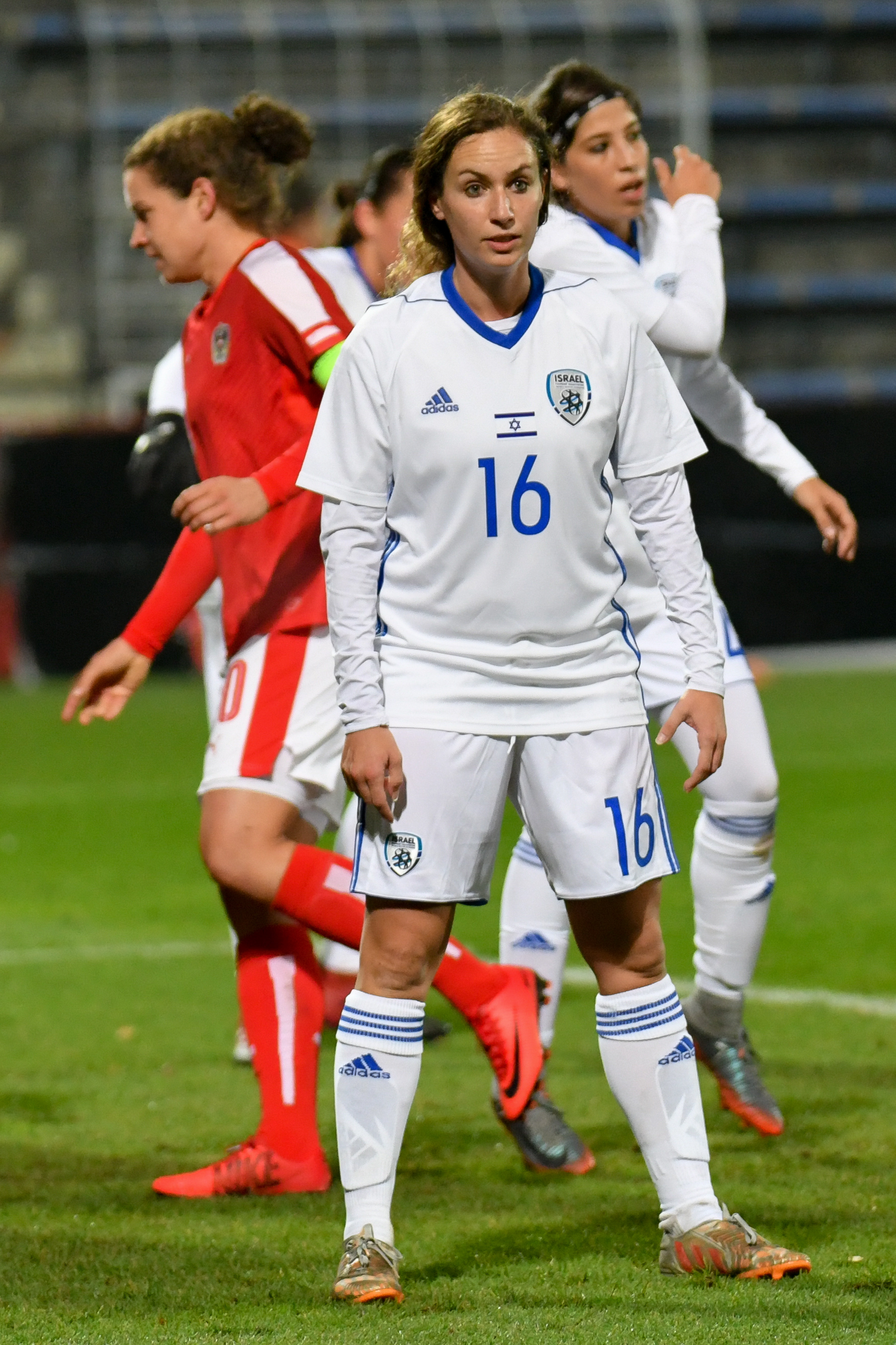 FIFA Women's World Cup 2019 Qualifying Round Austria vs. Israel November 23, 2017 BSFZ-Arena Maria Enzersdorf. Picture shows